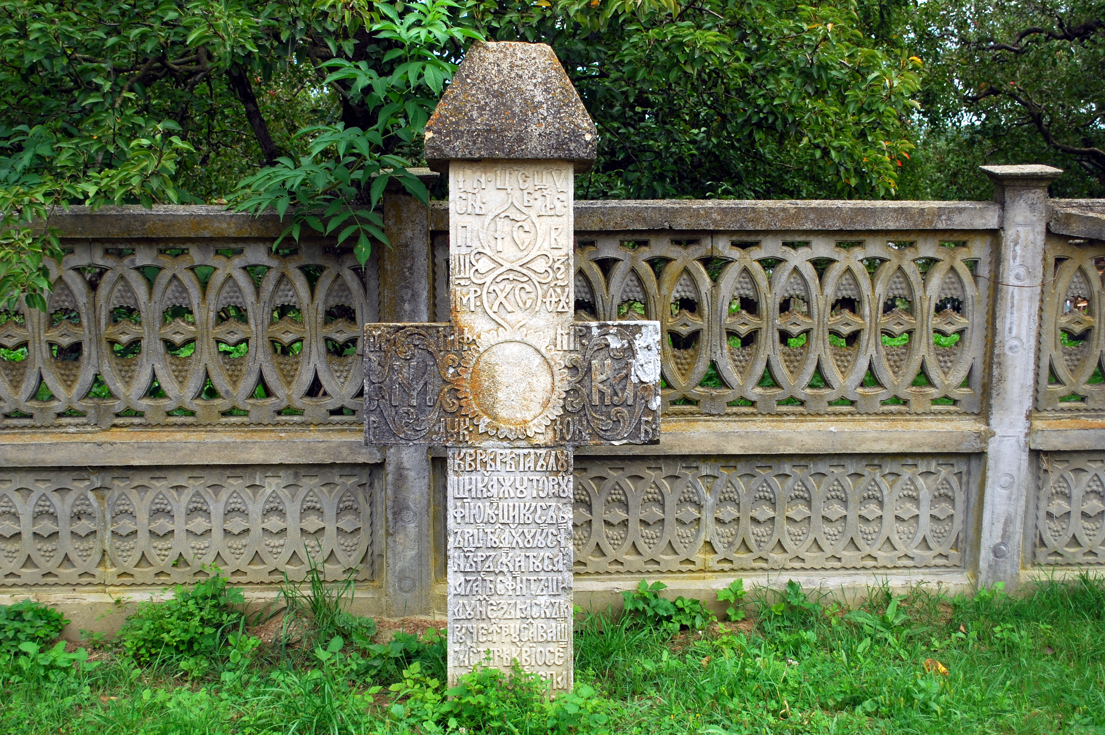 Stone cross in Gemenea-Brătulești, Dâmbovița County, RomaniaRomână: Crucea de piatră din Gemenea-Brătulești, județul Dâmbovița, România